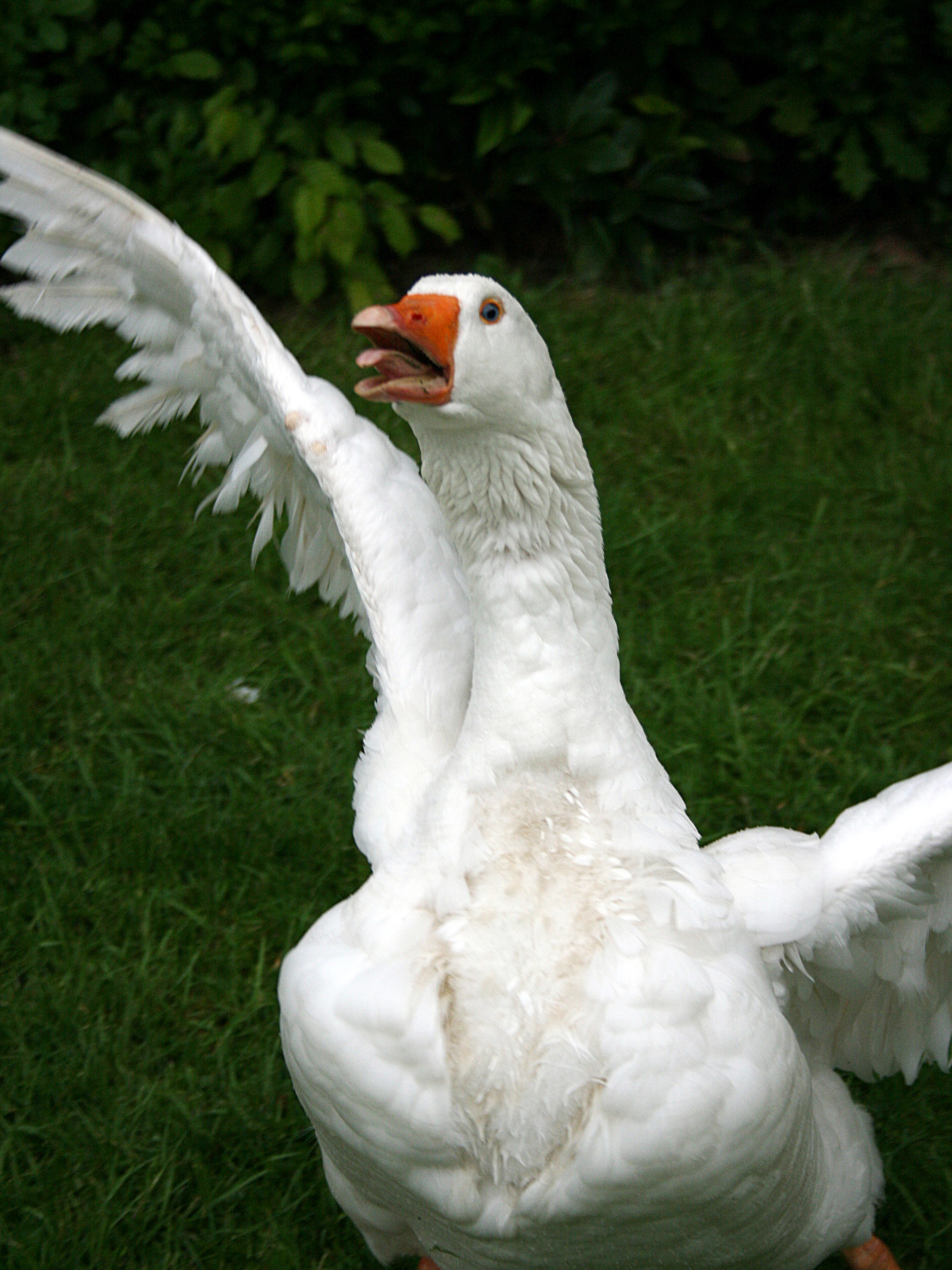 A domestic goose displaying aggressively.